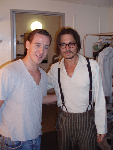 "Edward Scissorhands" cast member Adam Galbraith (The Inventor/Manny Grubb) with actor Johnny Depp backstage at the Ahmanson Theatre, Los Angeles.